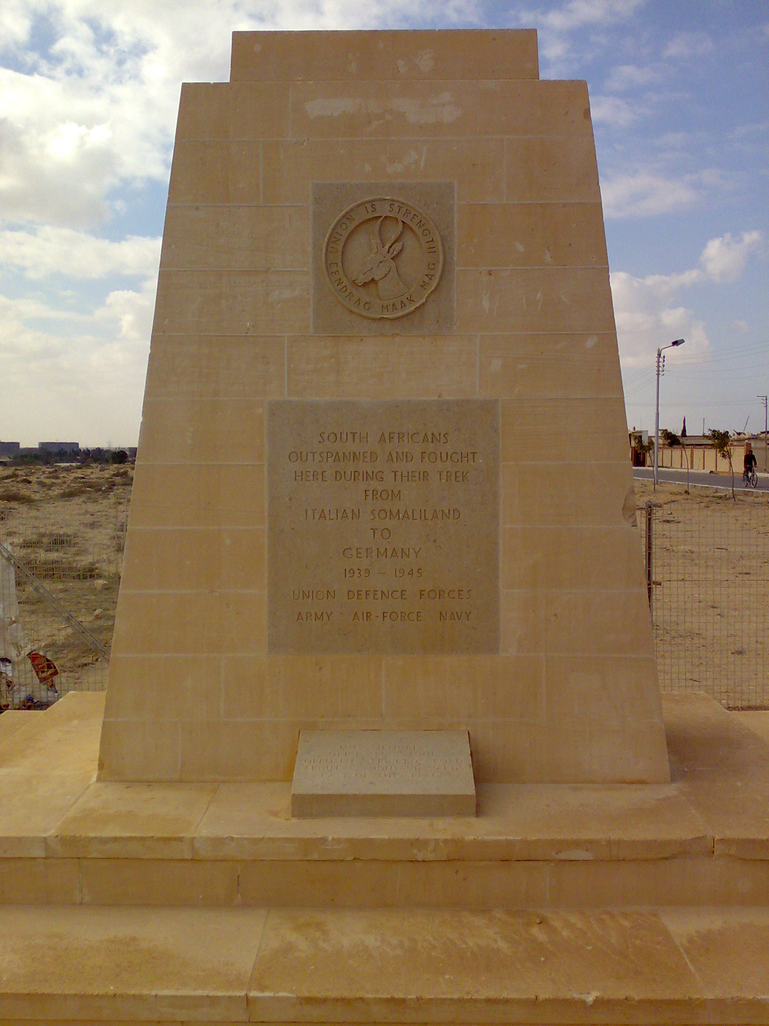 Memorial for South African soldiers who died at El Alamein, 1942